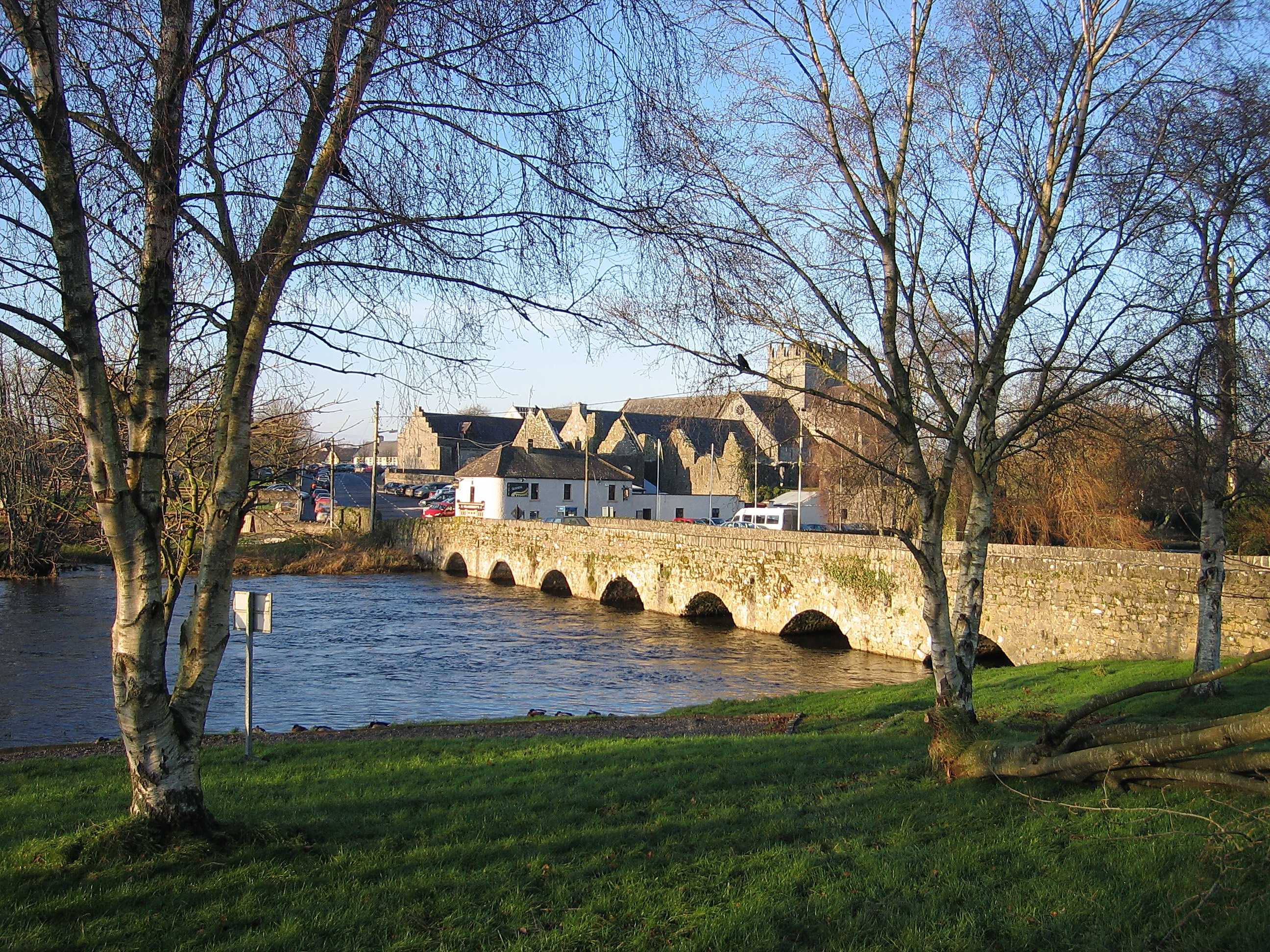 Holycross, County Tipperary and the River Suir (Sarah777 19:50, 23 December 2006 (UTC))